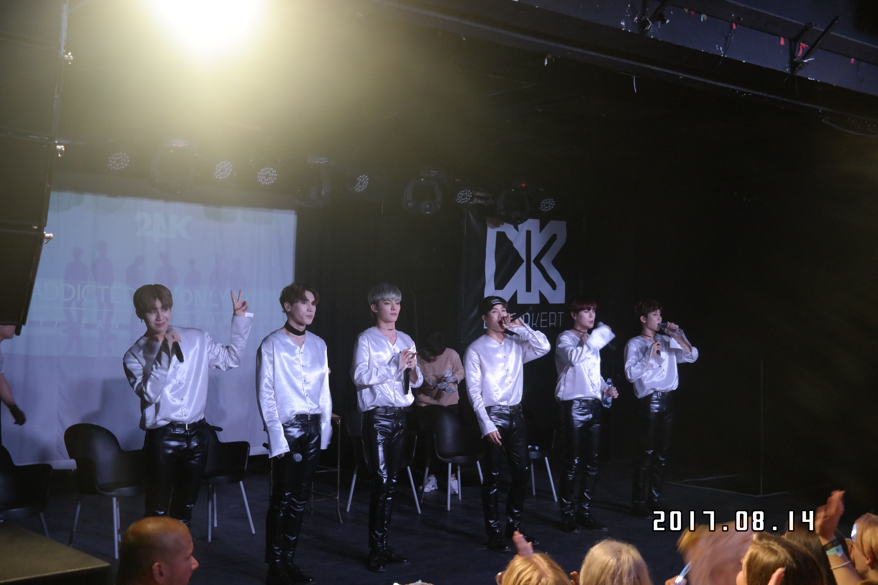 K-pop boy band 24K in Budapest